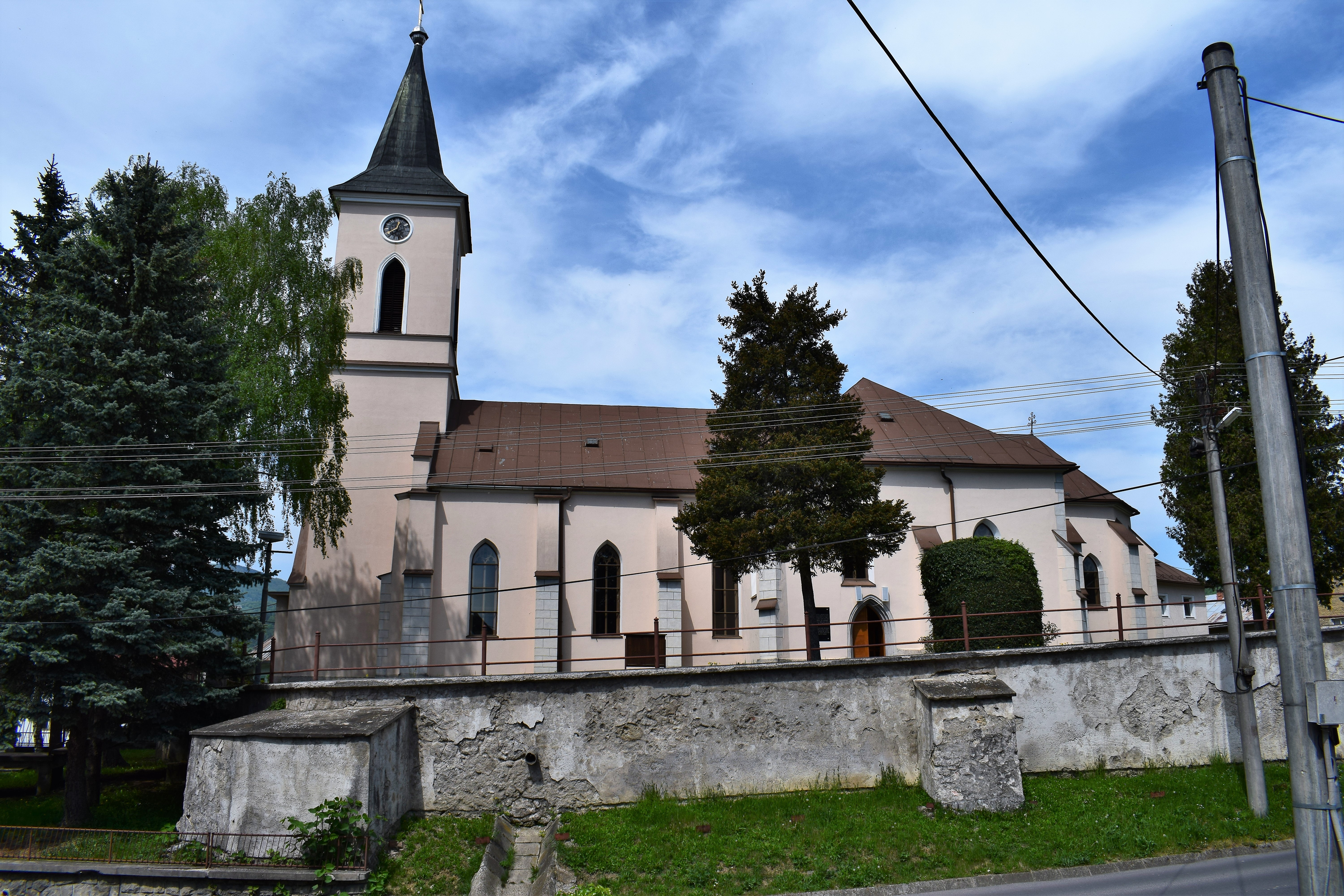 scene at the castle of Selce